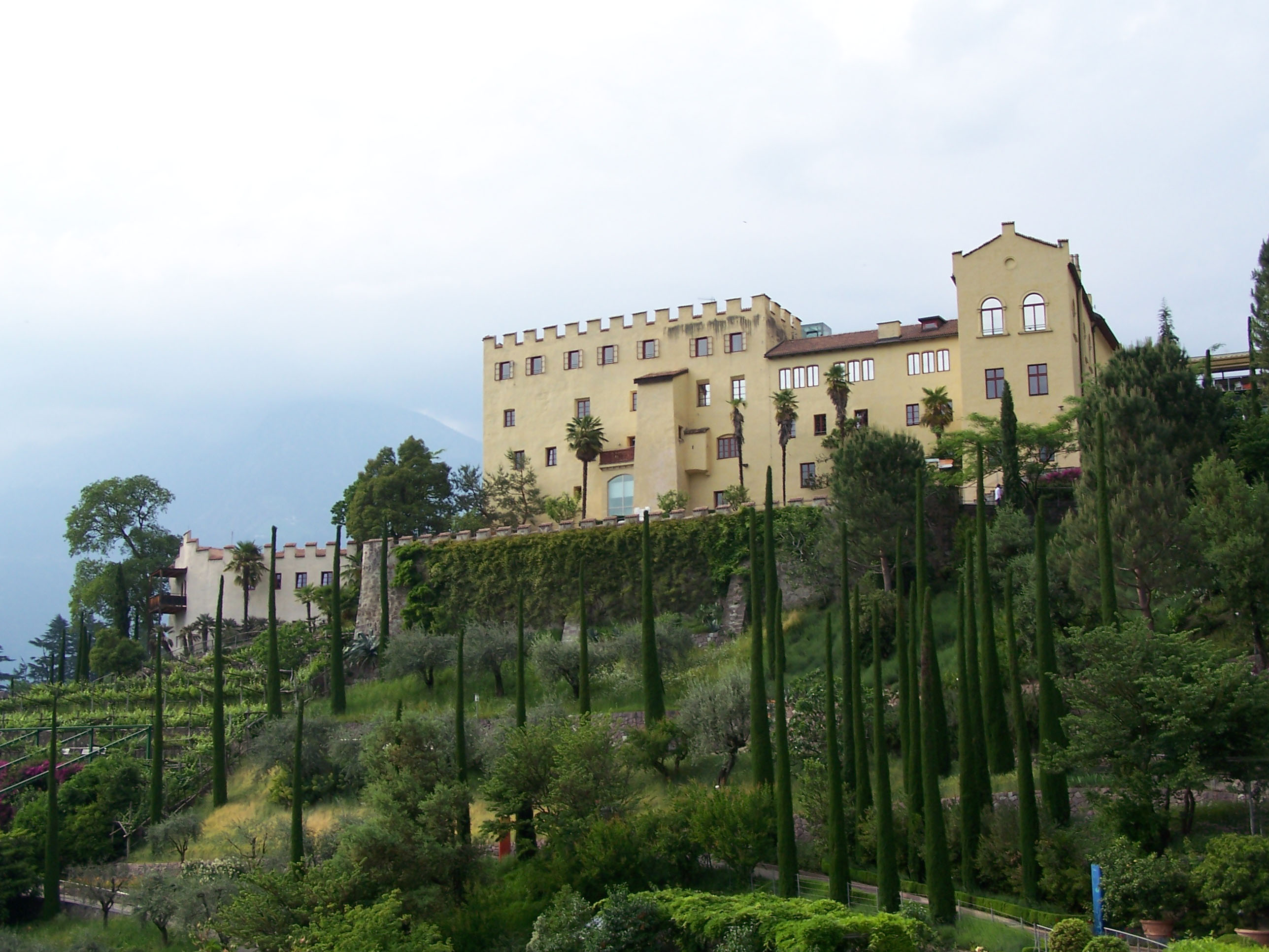 Trauttmansdorff Castle Gardens in Meran, South Tyrol